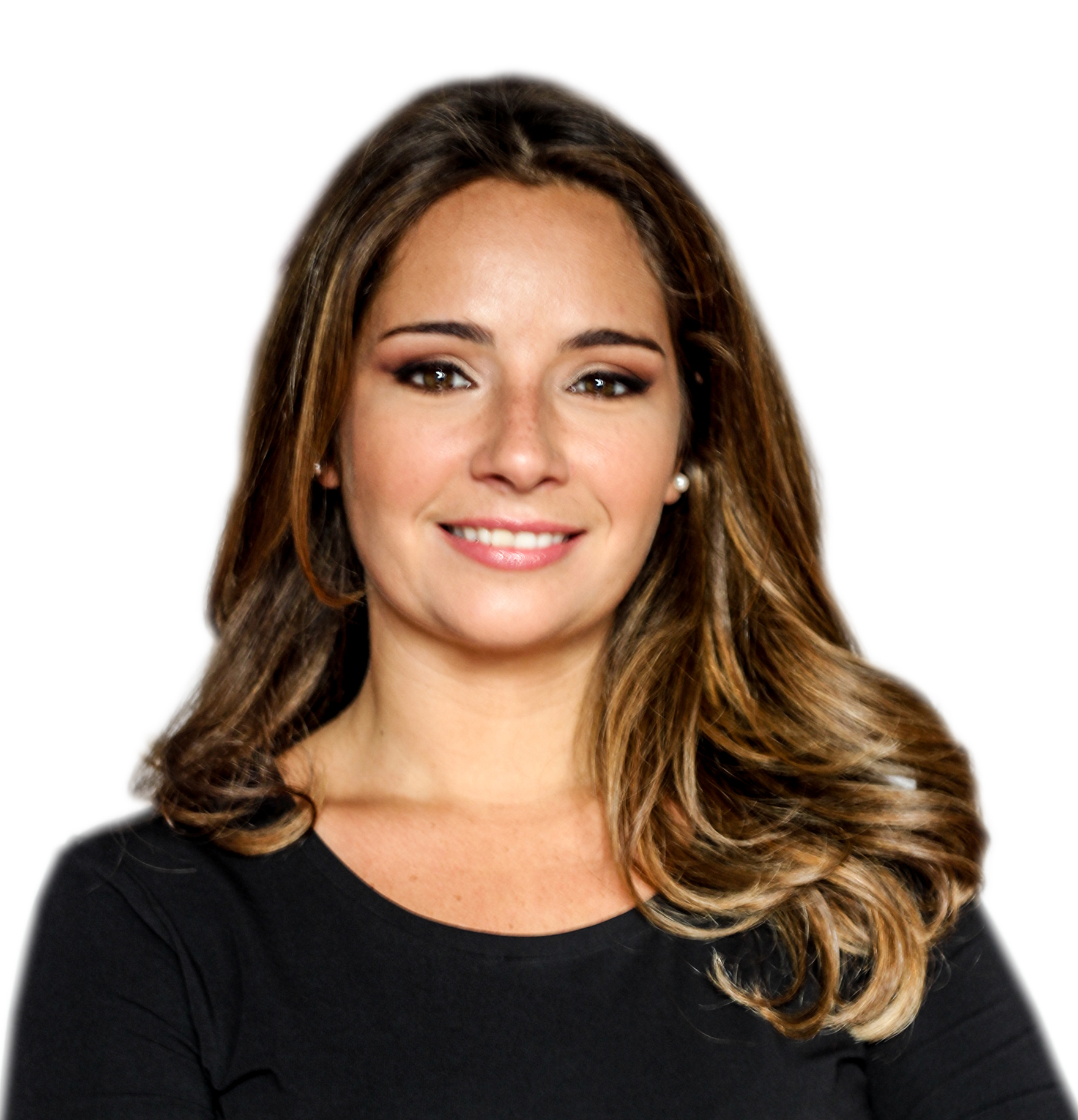 Marta Dhanis, photo by Prasad Siva